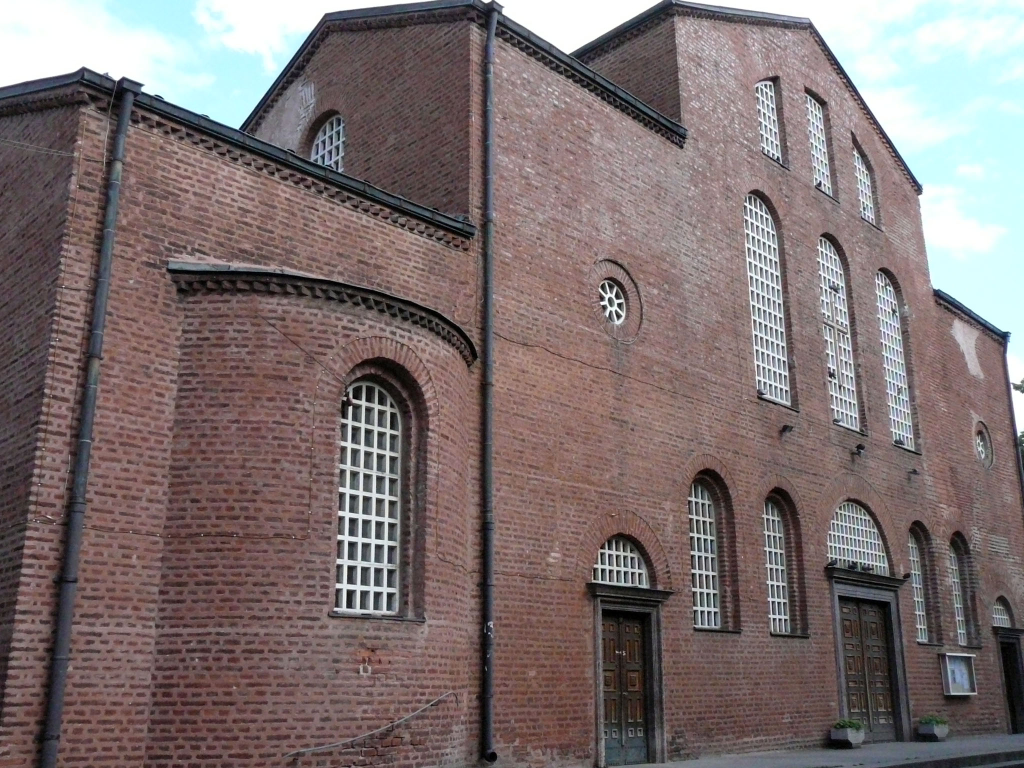 Sveta Sofia Church